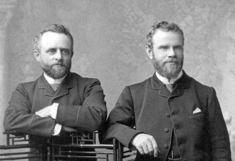 August Simmer and John Jack, founders of Simmer and Jack, a South African mining company